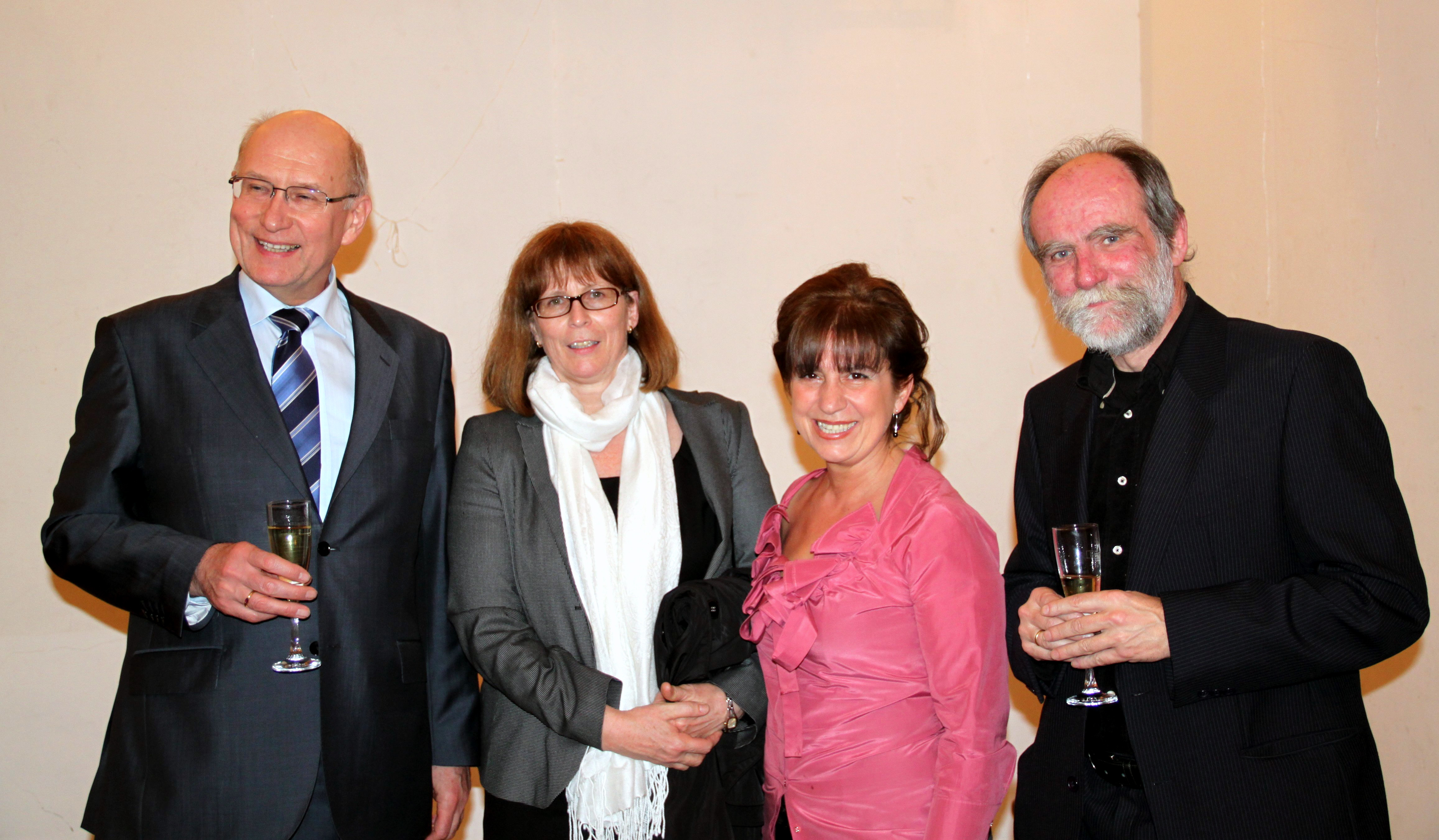 In der Deutschen Botschaft in Tbilisi